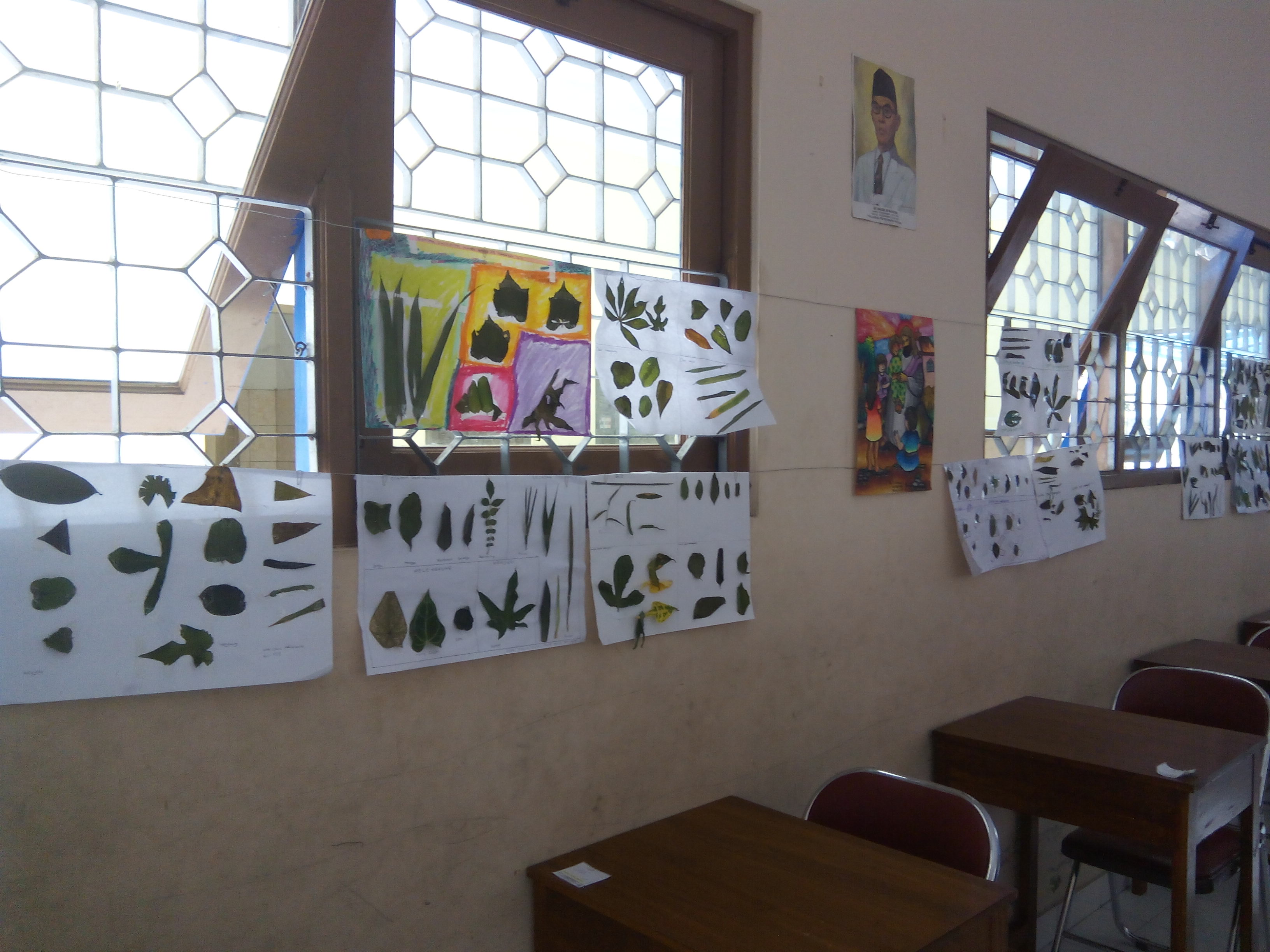 Those are the works from the students.